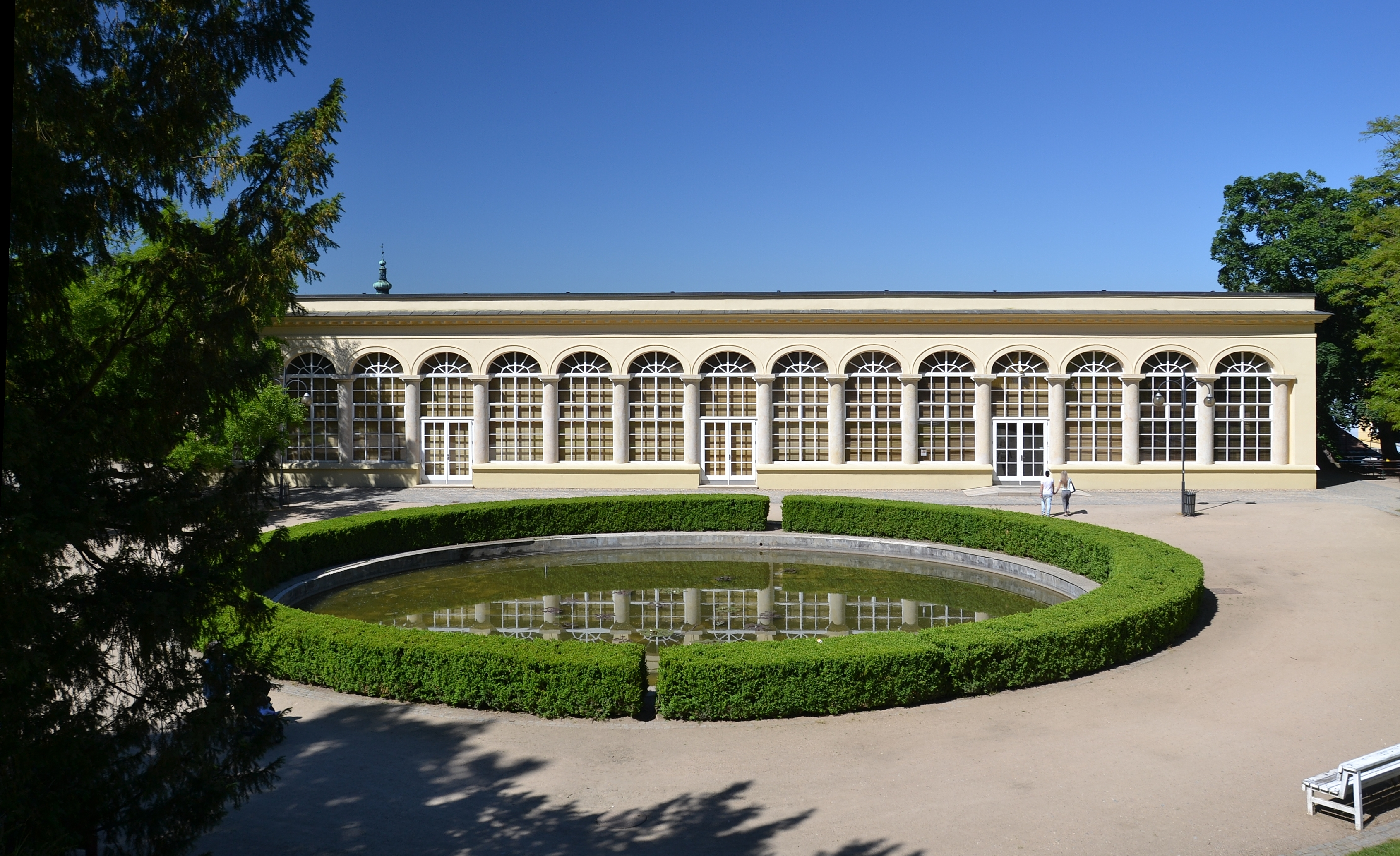 Boskovice (Boskowitz), Moravia - glasshouse